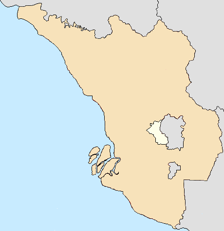 Location map of Petaling Jaya, a city within the Malaysian state of Selangor.